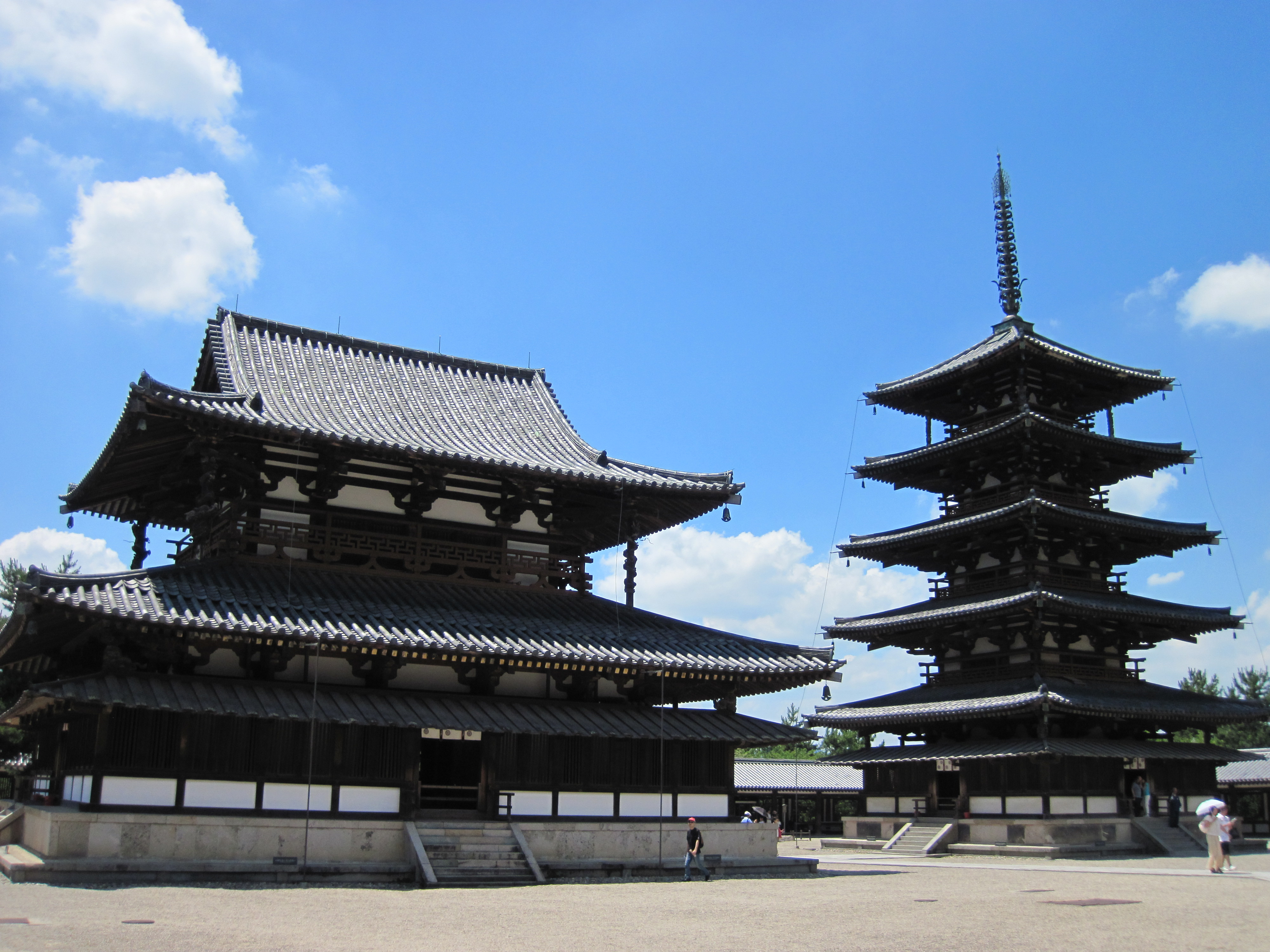 Horyu-ji National Treasure World heritage 国宝・世界遺産法隆寺